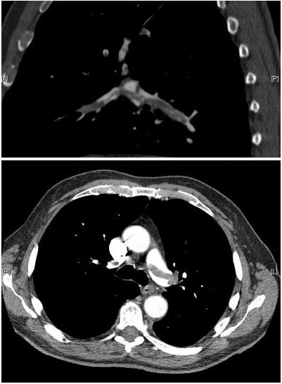 CT pulmonary angiography images confirming the presence of a saddle embolus and substantial thrombus burden in the lobar branches of both main pulmonary arteries.